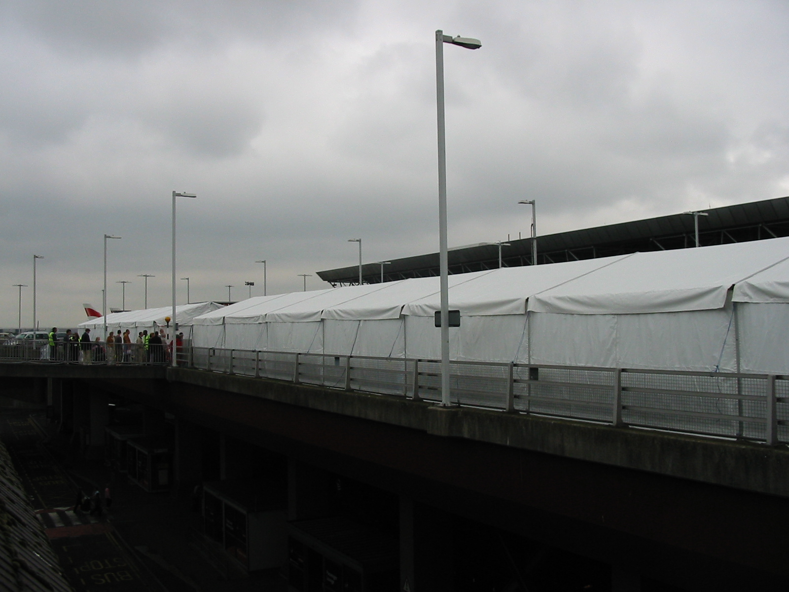 Tents on the parking lot in front of terminal 4. Picture taken during a delay due to the safety measures taken at Heathrow in order to prevent terrostic actions aboard aircraft. Due to these measures many flights were delayed and passengers could not wait inside the terminal building. On the parking lot tents were erected to give people a place to stay while waiting for their flight to depart. Picture taken by Gebruiker:Ellywa